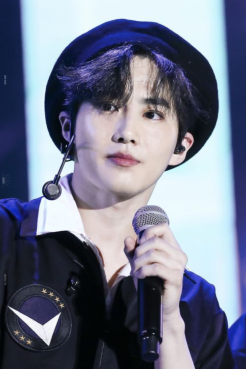 Suho at Asia Song Festival on September 24, 2017.